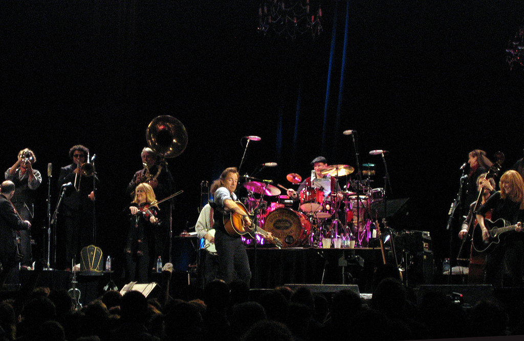 Bruce Springsteen & The Seeger Sessions Band - Arena, Verona - 5 october 2006